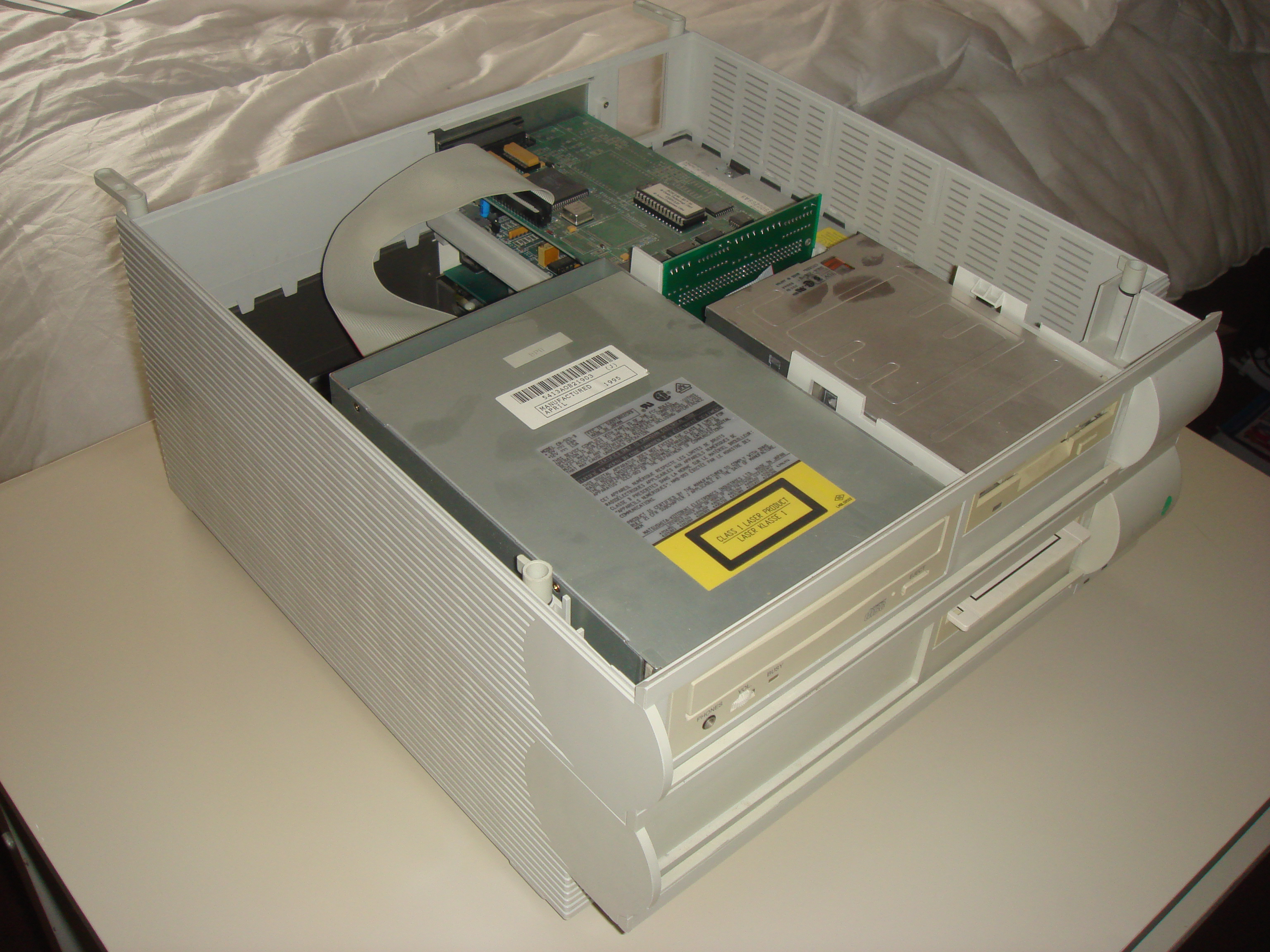 Internal shot of Acorn Risc PC - note that second slice is not magnetically shielded